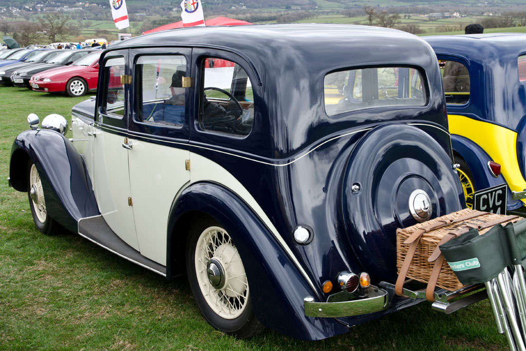 Lanchester 14 Roadrider 6-light saloon(DVLA) manufactured 1937, 1527ccSt Asaph Classic Car Show 21/04/2013